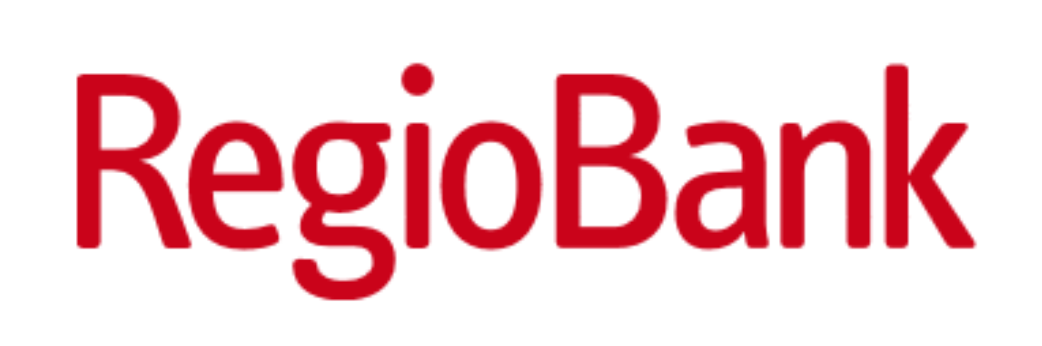 The logo of the RegioBank corporation.